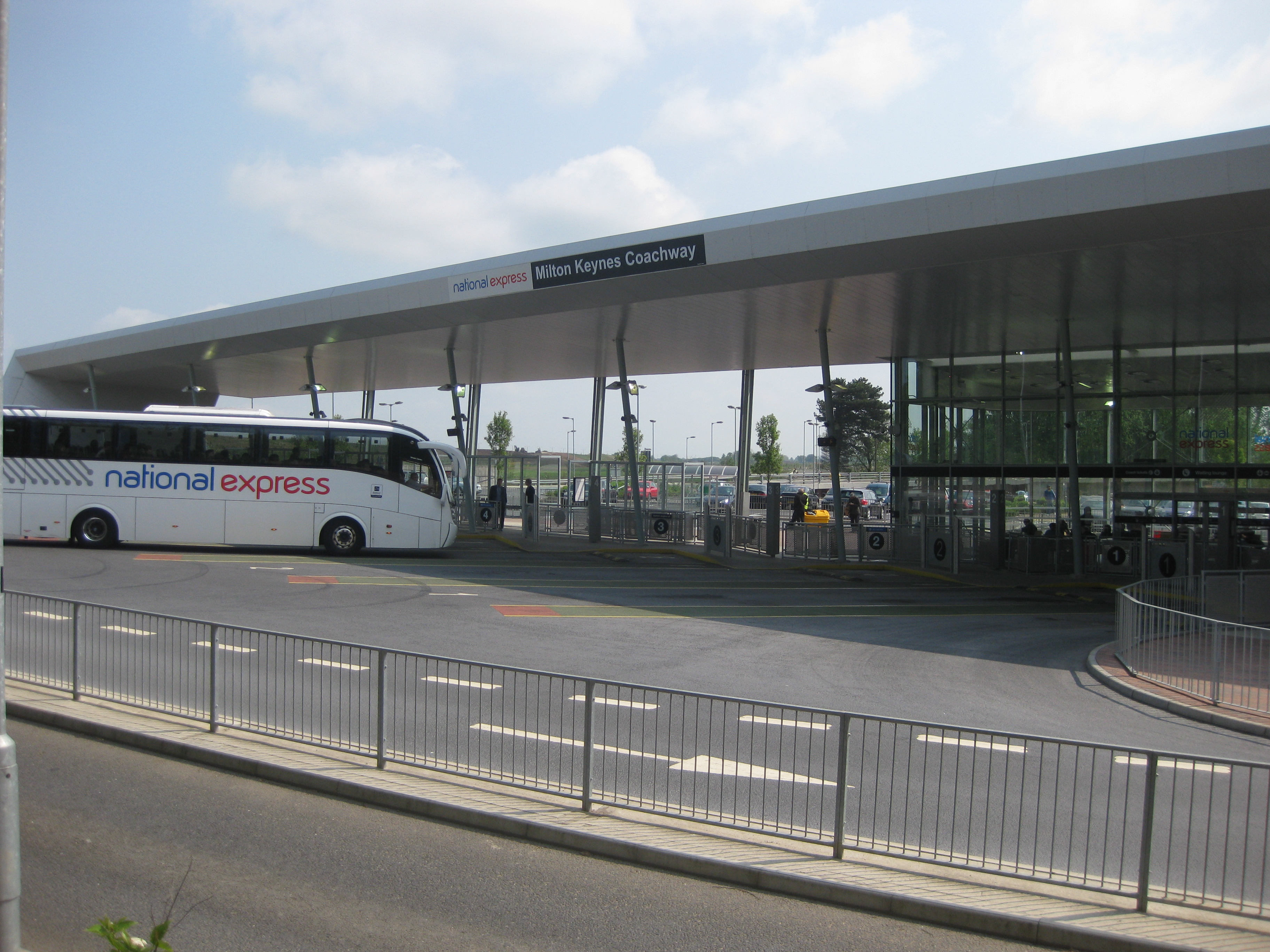 Milton Keynes Coachway, Buckinghamshire